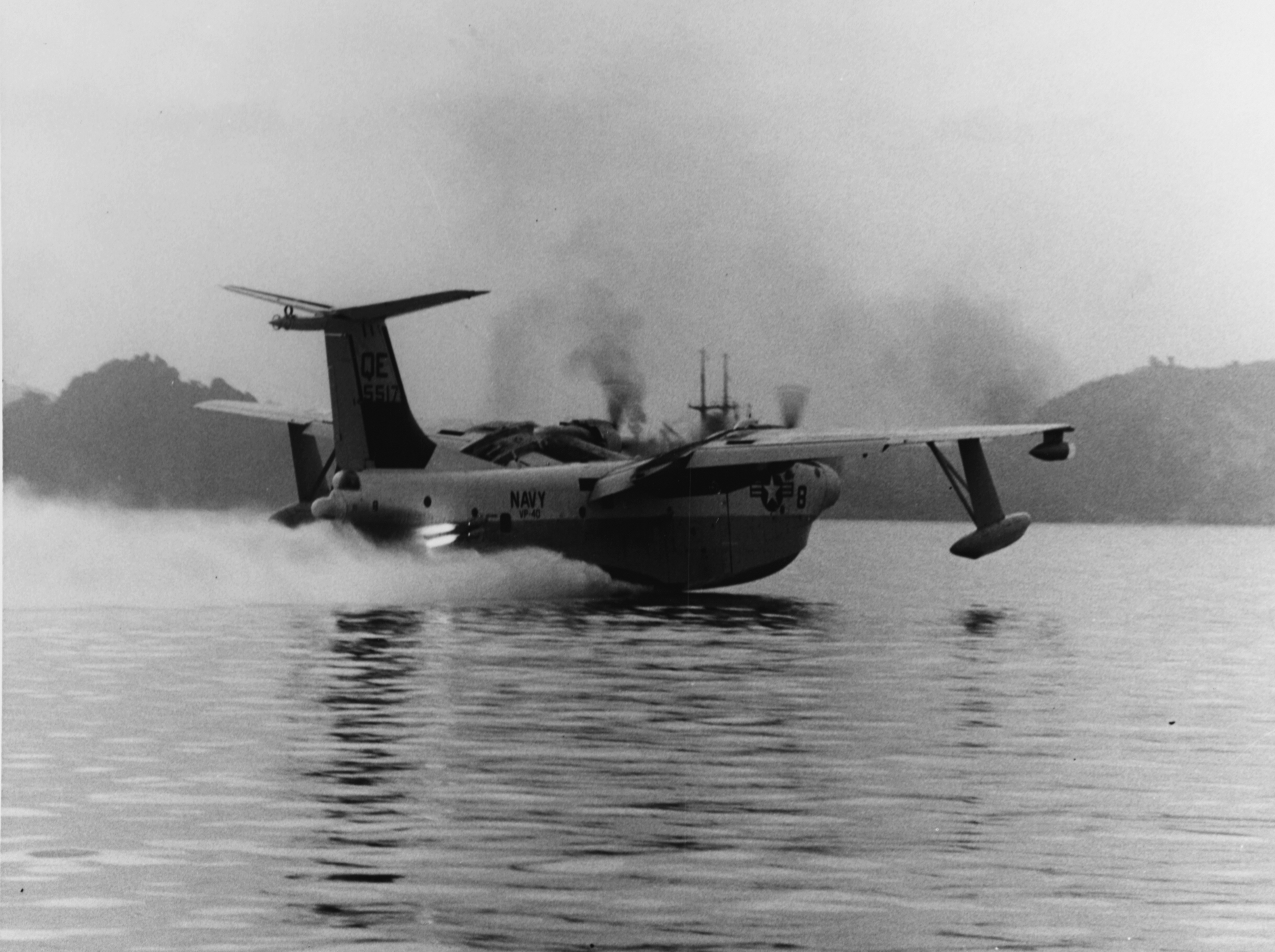 A U.S. Navy Martin SP-5B Marlin patrol plane (BuNo 135517) uses JATO (jet assisted take-off) rockets to lift from the waters of Cam Ranh Bay, South Vietnam, to begin a patrol of the coast, in April 1967. The plane was attached to Patrol Squadron 40 (VP-40), the last seaplane squadron deployed in Southeast Asia.